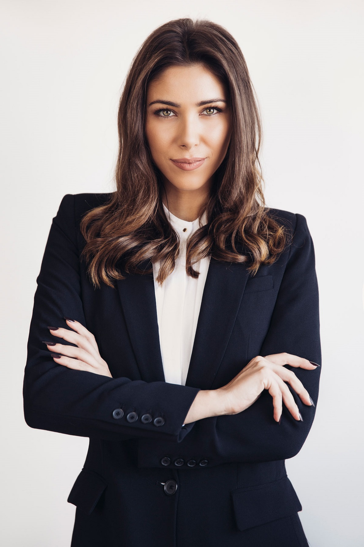 Daniella